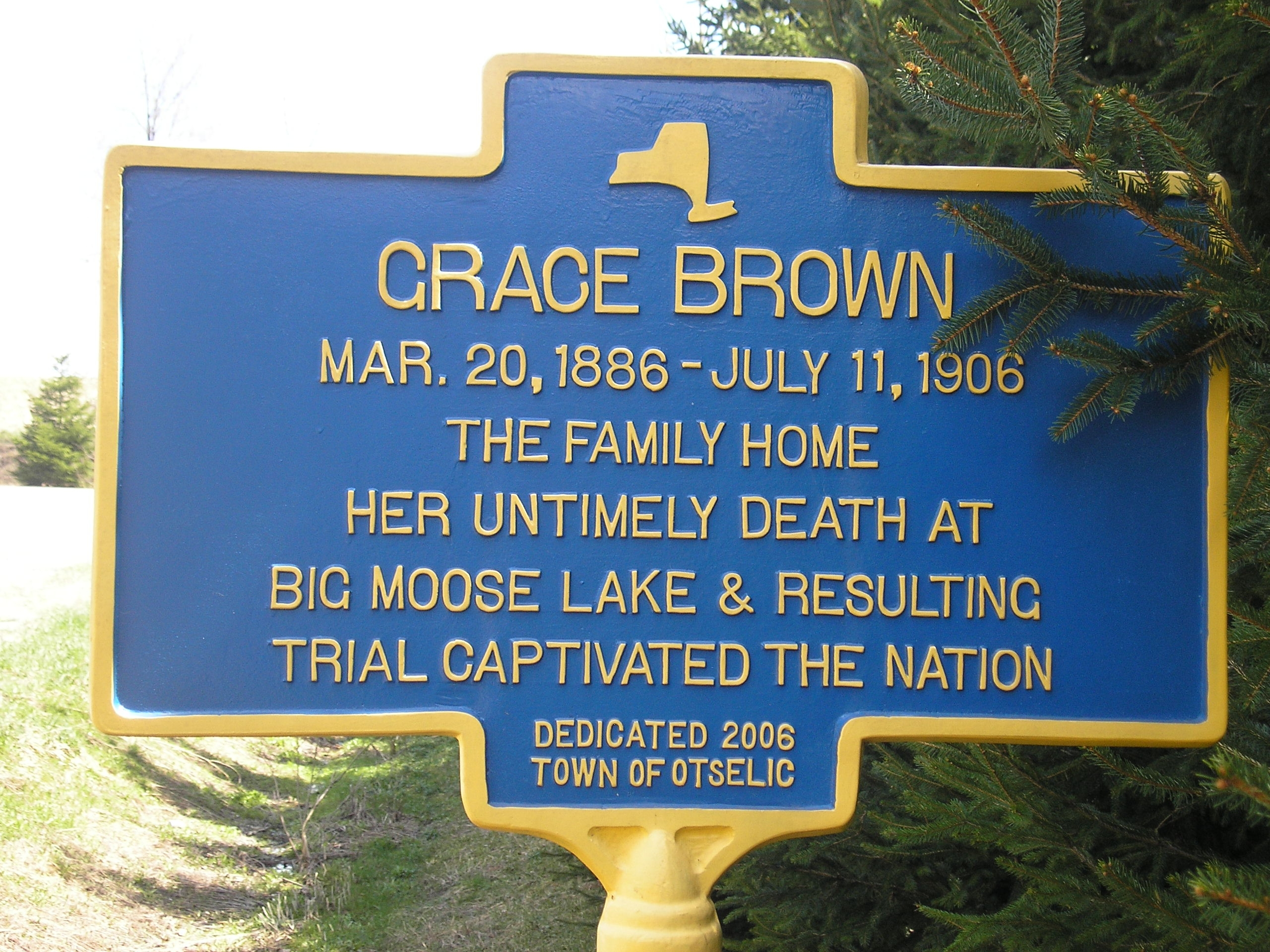 Historic marker of Grace Brown's family home. Her death at Big Moose Lake and resulting trail captivated the nation.